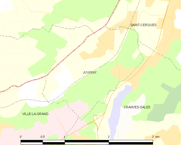 Map of French municipality Juvigny